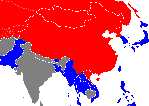 Updated. This one is smaller, but looks nicer. Also Laos is made blue.